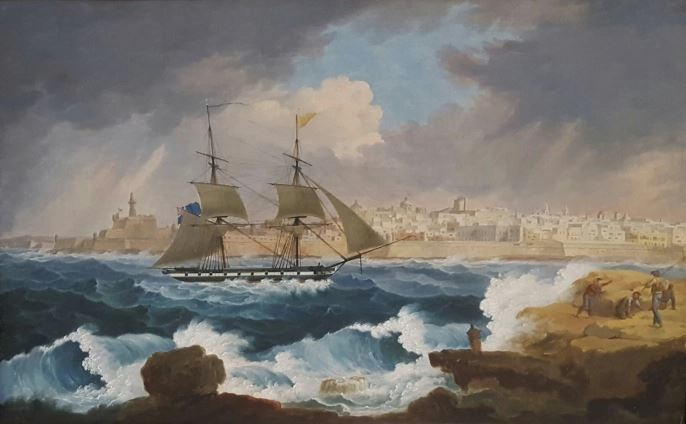 HMS Zebra entering Marsamxett Harbour, between 1828 and 1840, by Giovanni Schranz